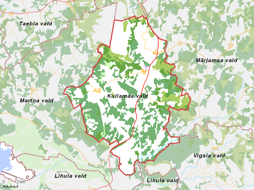 Map of municipality in Estonia